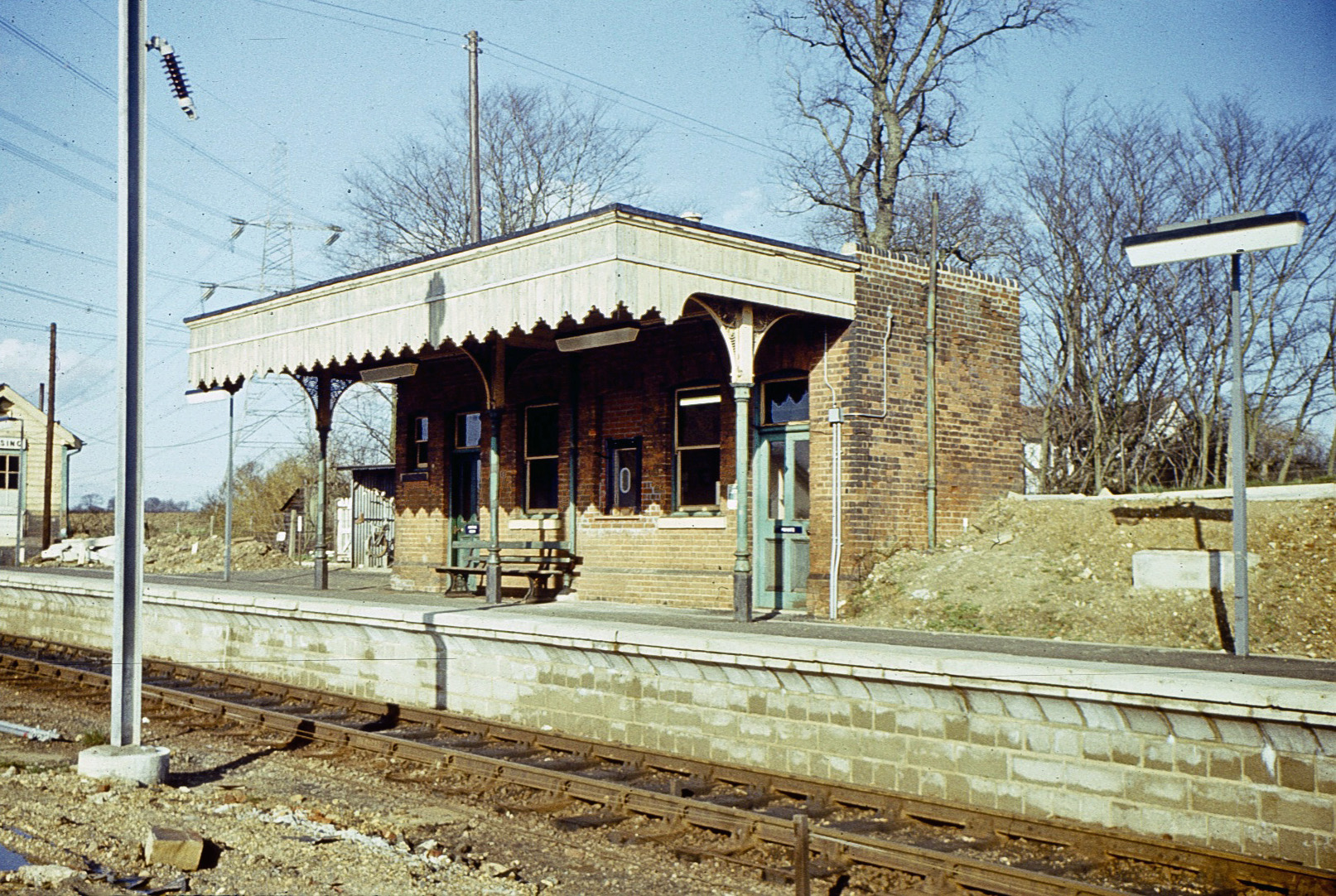 November 1976. These pictures were taken immediately before electrification was completed.